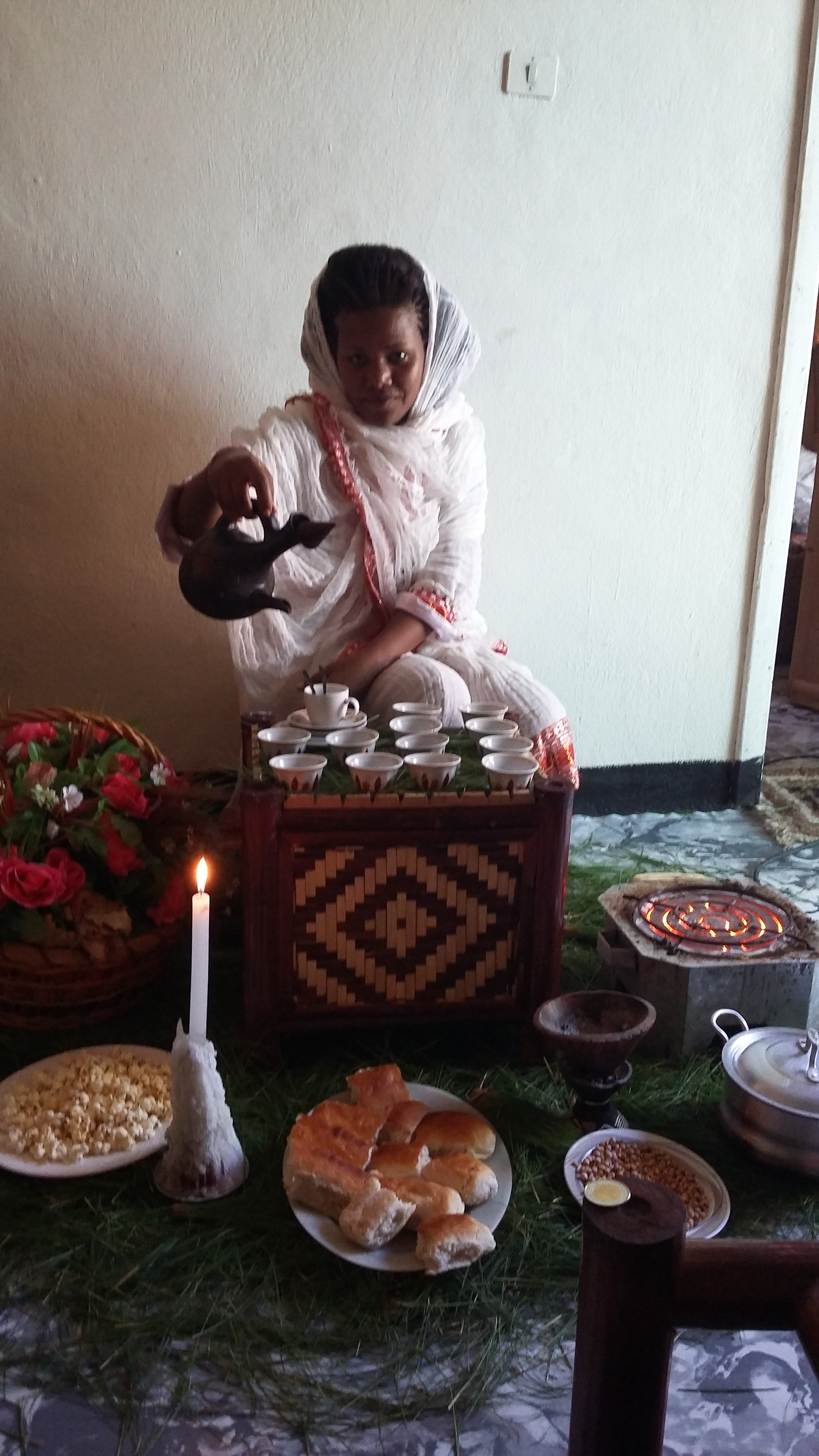 Traditional Ethiopian coffee ceremony service